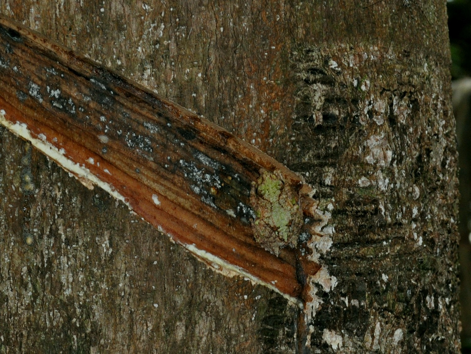 Frilled Tree-frog (Rhacophorus appendiculatus) mimicking Hevea tree bark. From Sambas, West Kalimantan, Indonesia.